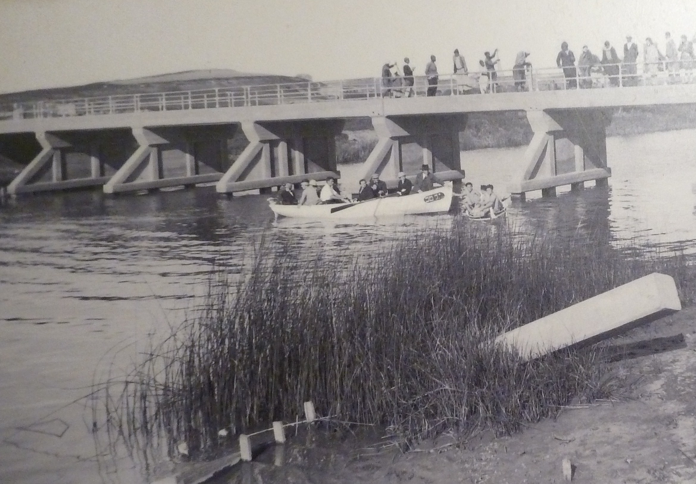 Images by Shimon Korbman, Shalom Meir Tower, Tel Aviv